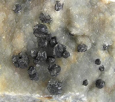 Metacinnabar Locality: Mount Diablo Mine (Mt. Diablo Mine; Ryne Mine), Mount Diablo, Clayton, Contra Costa County, California, USA (Locality at ) Size: 8.4 x 5.4 x 3.4 cm. Metacinnabar, though rather rare, is actually chemically the same as cinnabar (HgS), and can actually be transformed into cinnabar upon heating to around 500 degrees centigrade. Specimens have come from Italy, Romania, and as in this case, from California. What is nice about this specimen is how the cluster of crystals is isolated on a matrix of small quartz crystals. This is an old piece out of the Burton Jirgl collection - now hard to obtain!